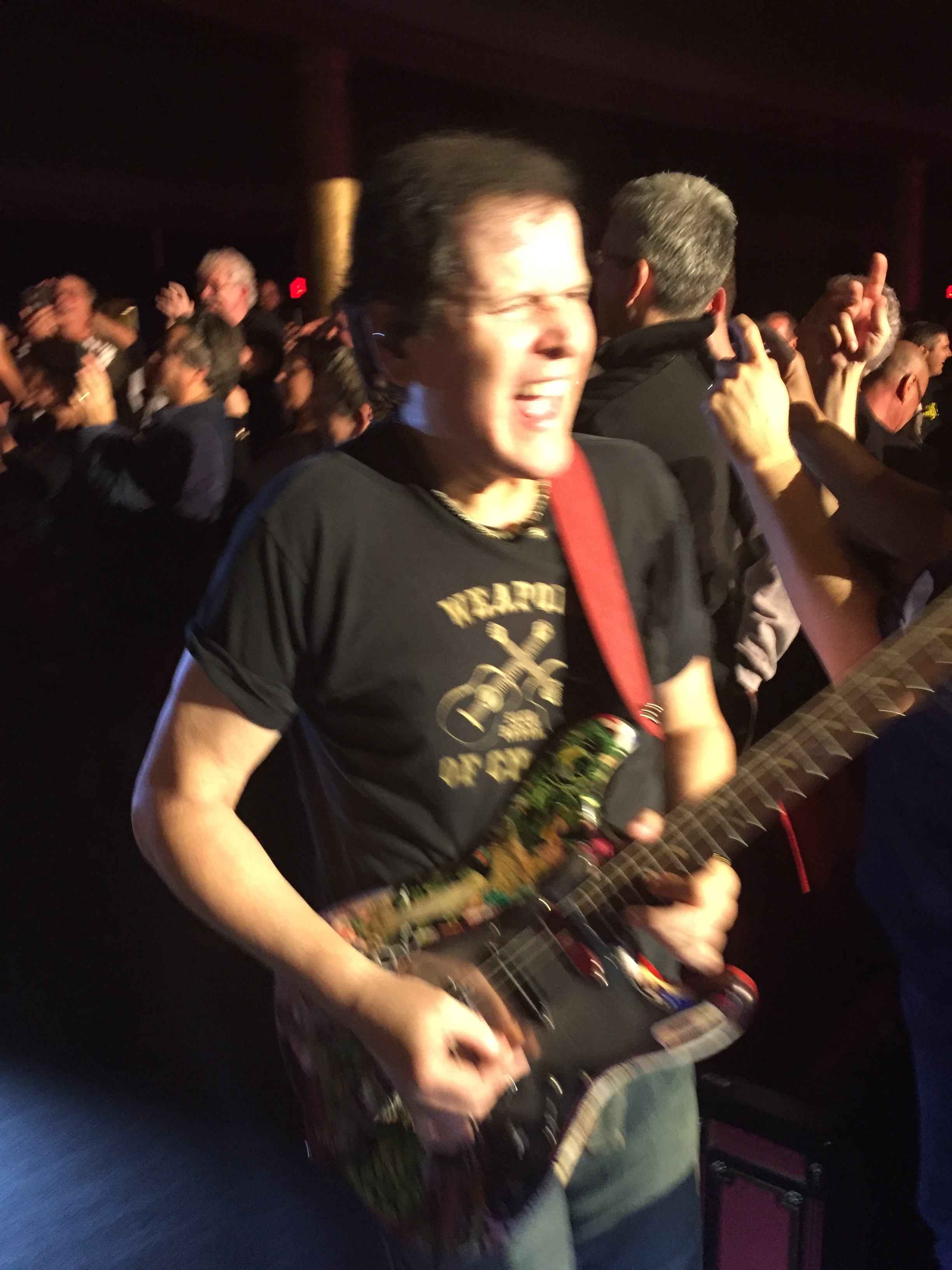 Trevor Rabin playing a guitar solo during "Owner of a Lonely Heart" - 29-Oct-2016 Anderson Rabin Wakeman concert, Goodyear Theater, Akron, Ohio